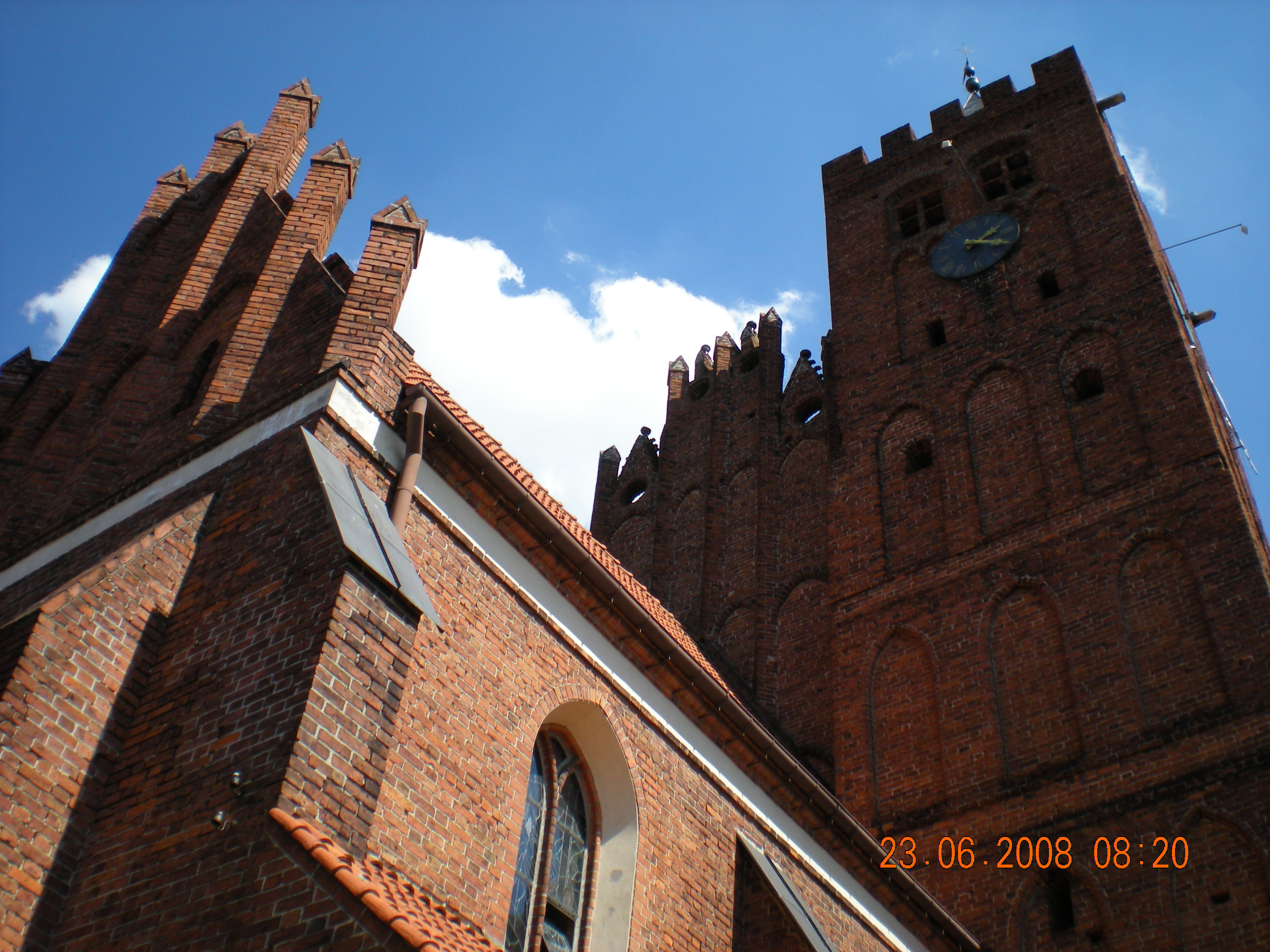 Saint Matthew church in Nowe, Poland